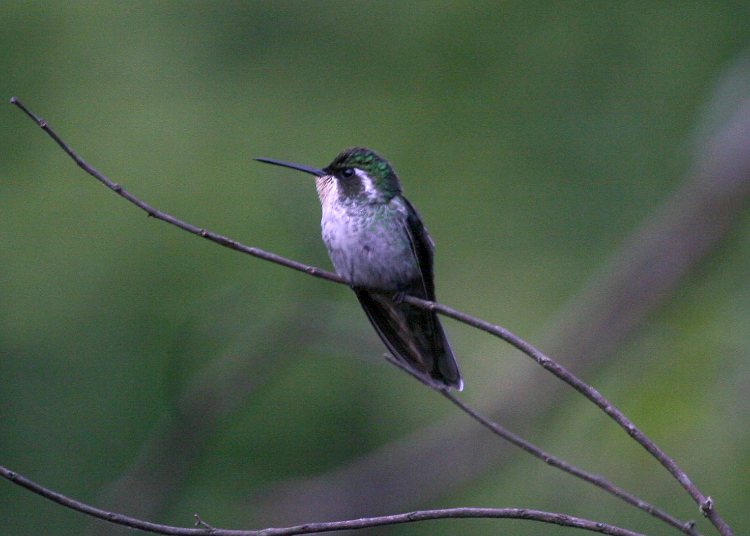 Green-breasted Mountain-gem (Lampornis sybillae) female